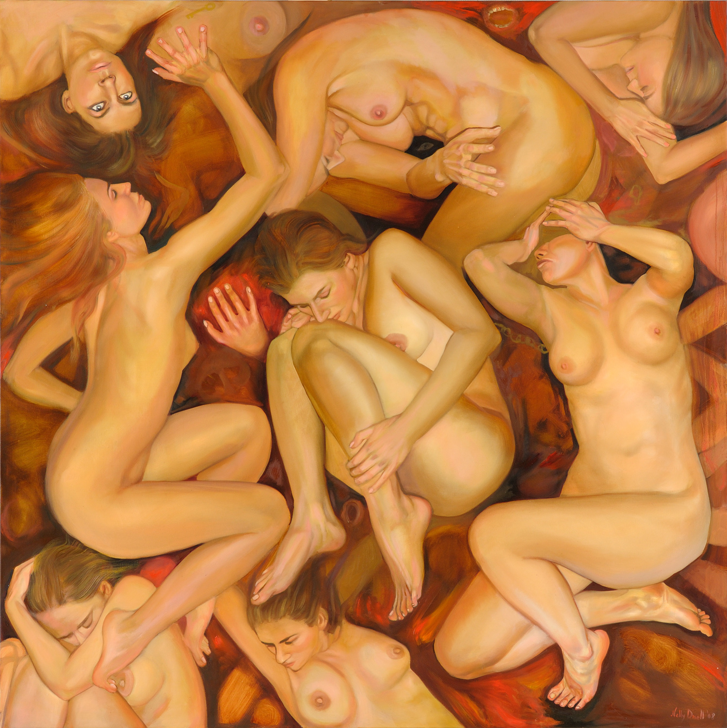 Artwork "Soul" is painted by Estonian artist Nelly Drell